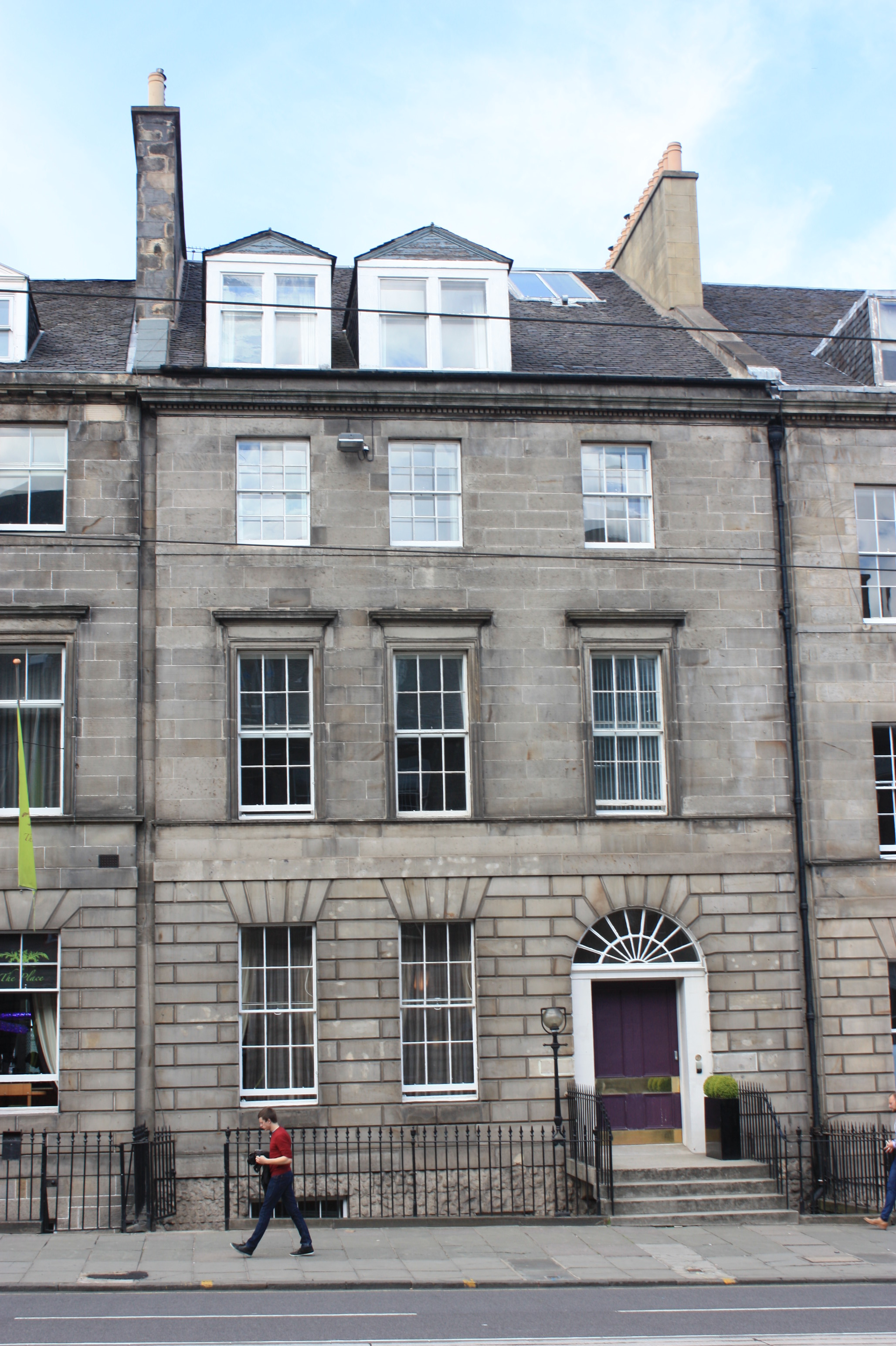 38 York Place, Edinburgh front